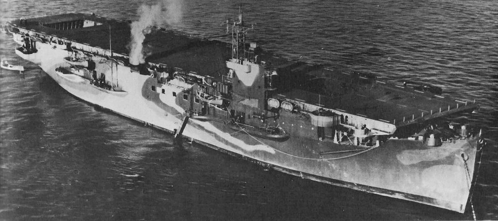 HMS Stalker at anchor.